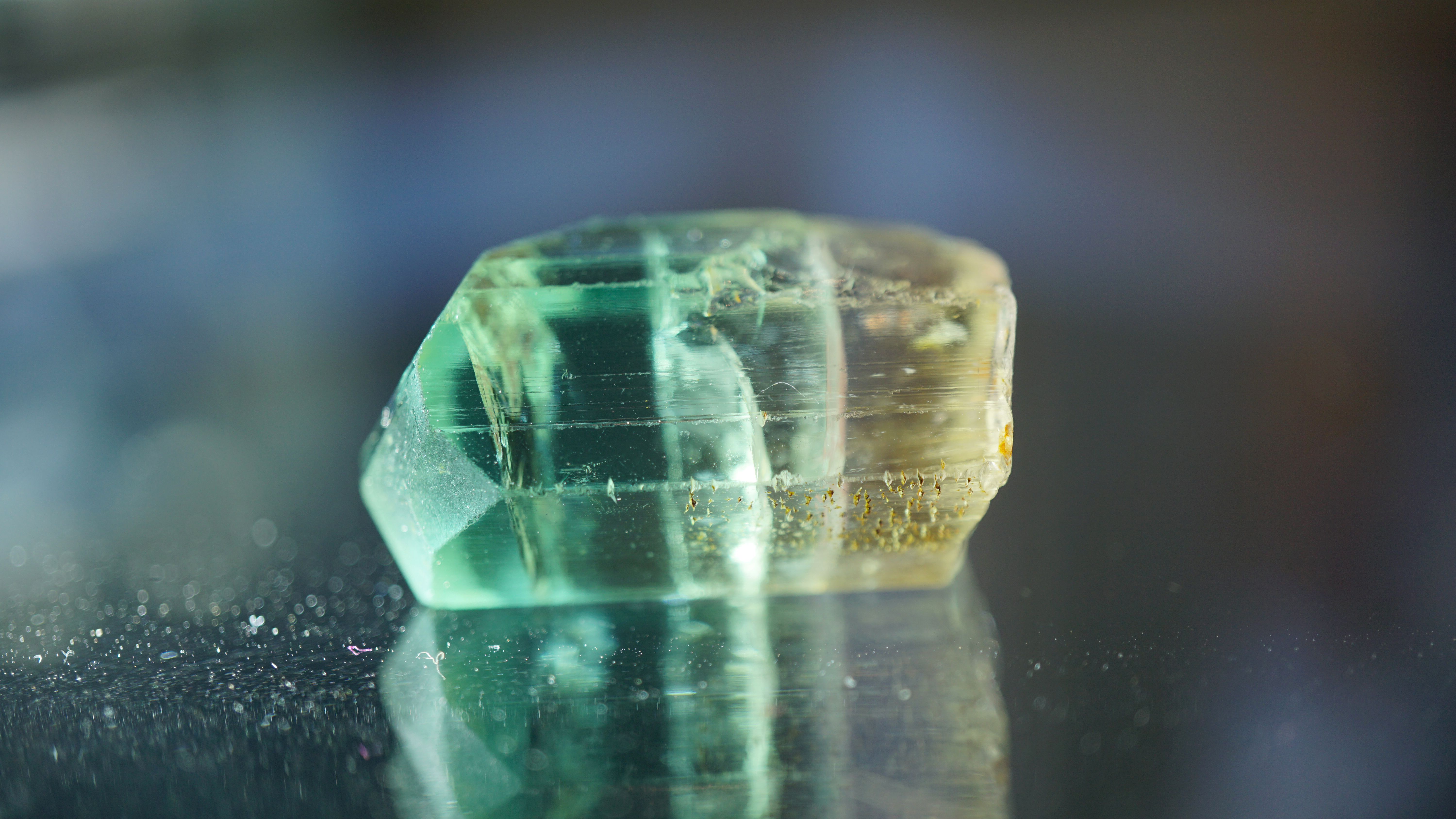 Elbaite Tourmaline (known as: watermelon)